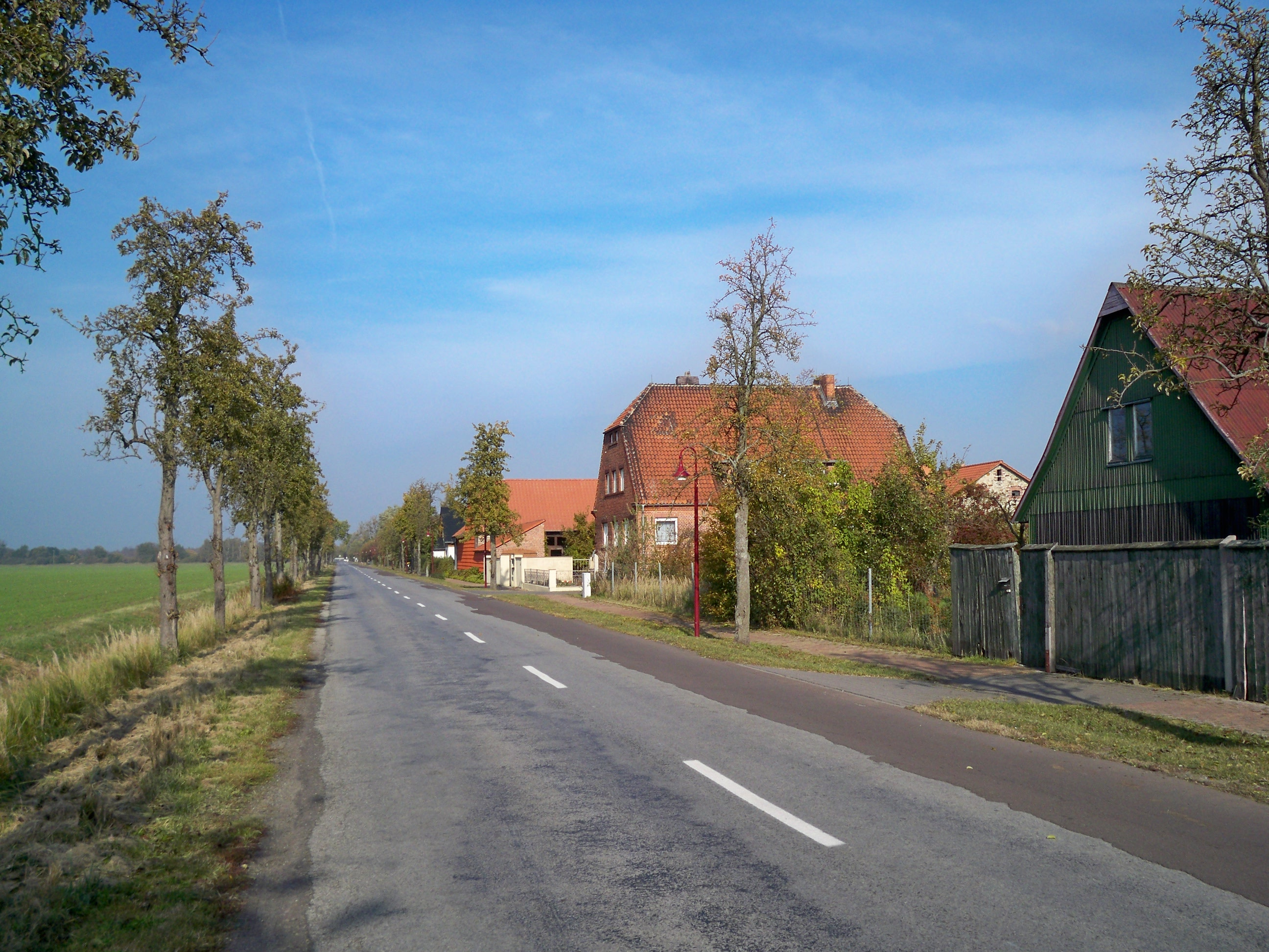 Buchhorst, Oebisfelde-Weferlingen, Saxony-Anhalt, street view from South